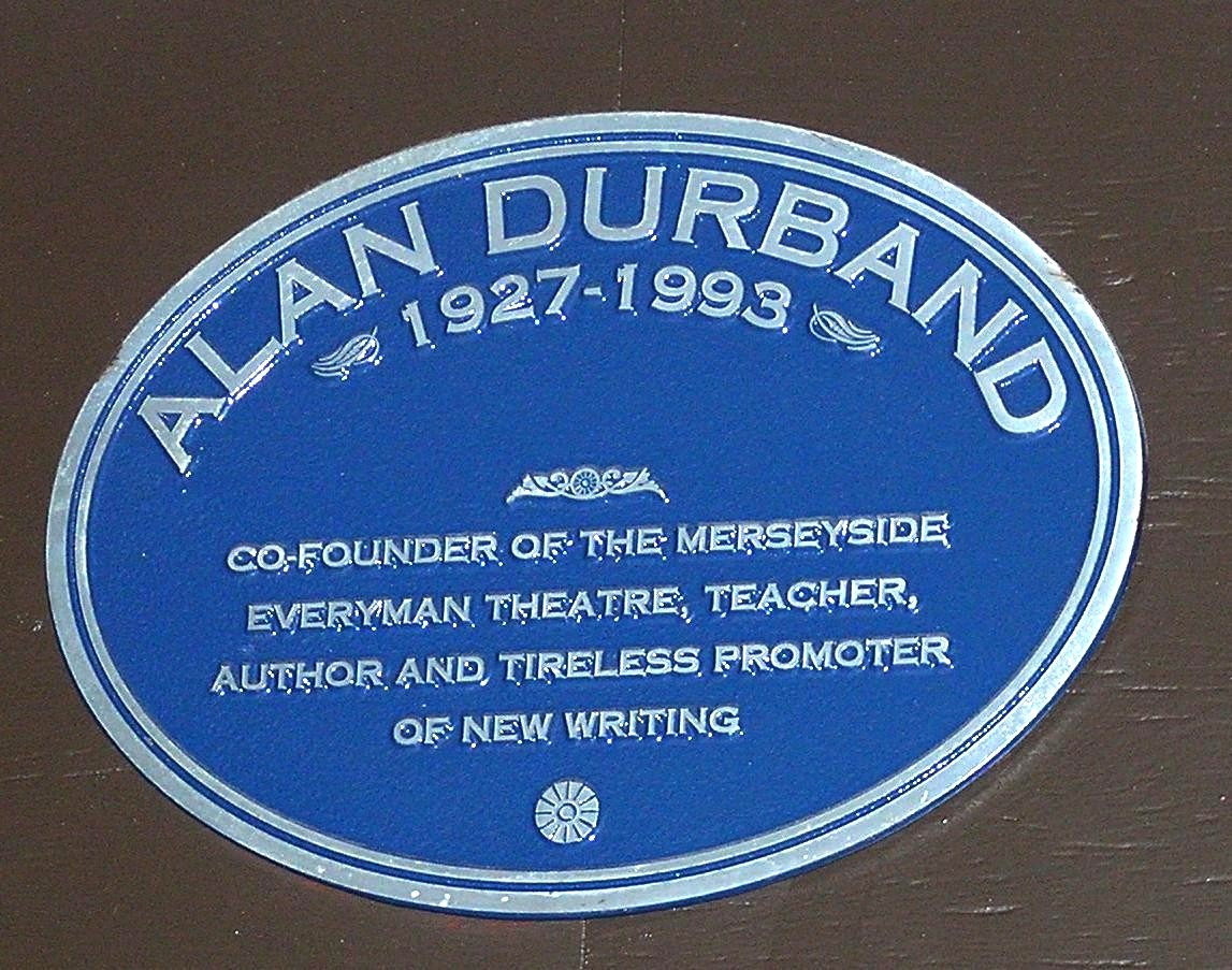 This is a personal photo by Geoff Southern.